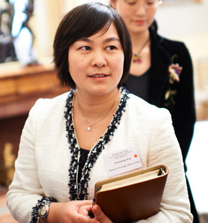 Hua Chunying (华春莹)